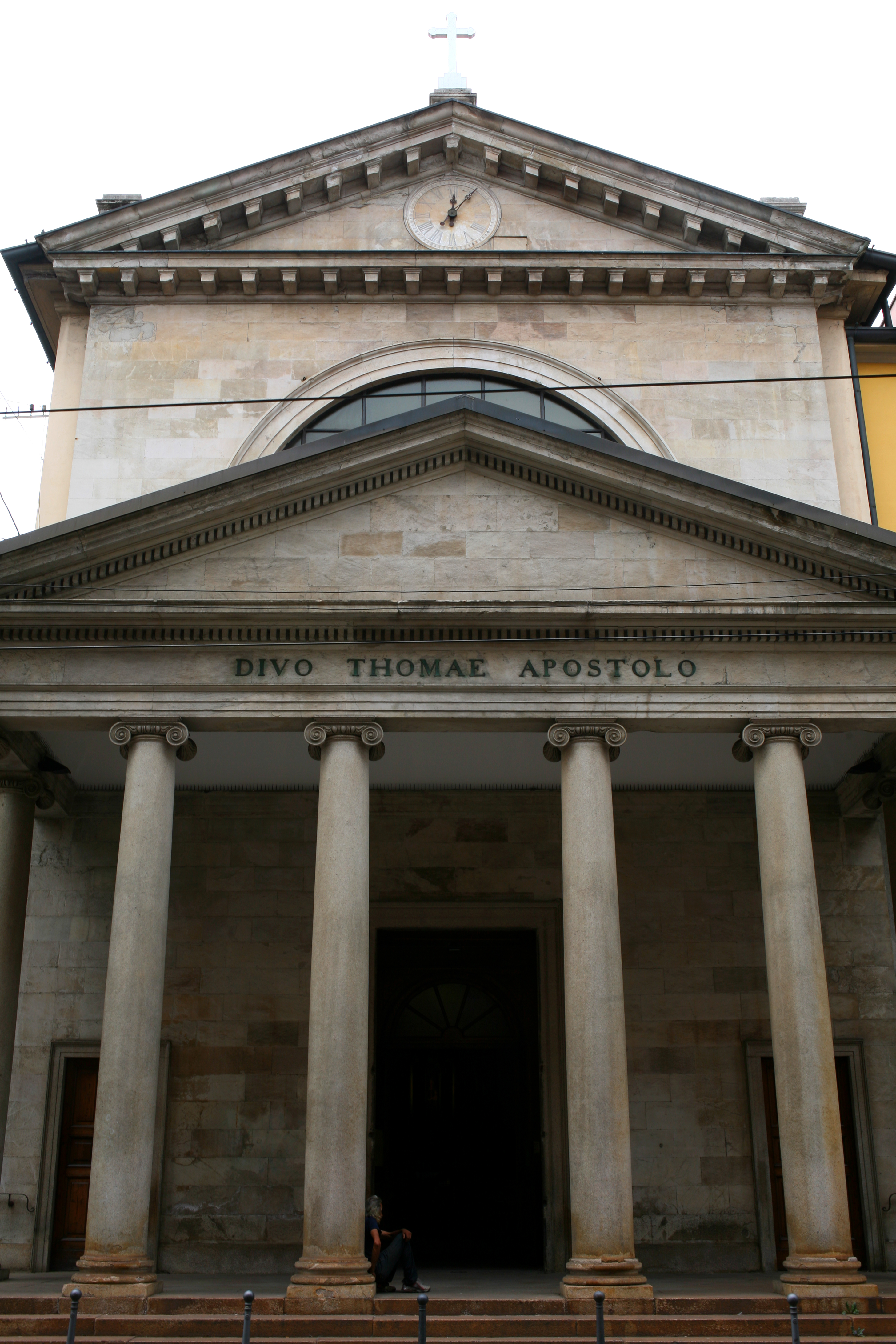 Facade of San Tomaso in Terramara, Milan, architect Giuseppe Arganini